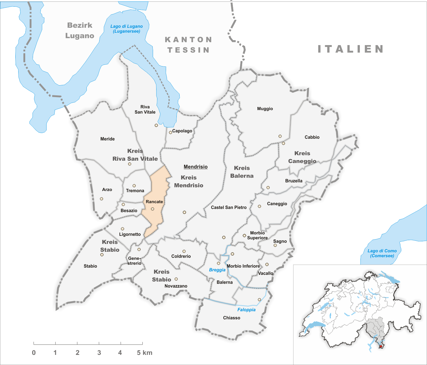 Municipality Rancate